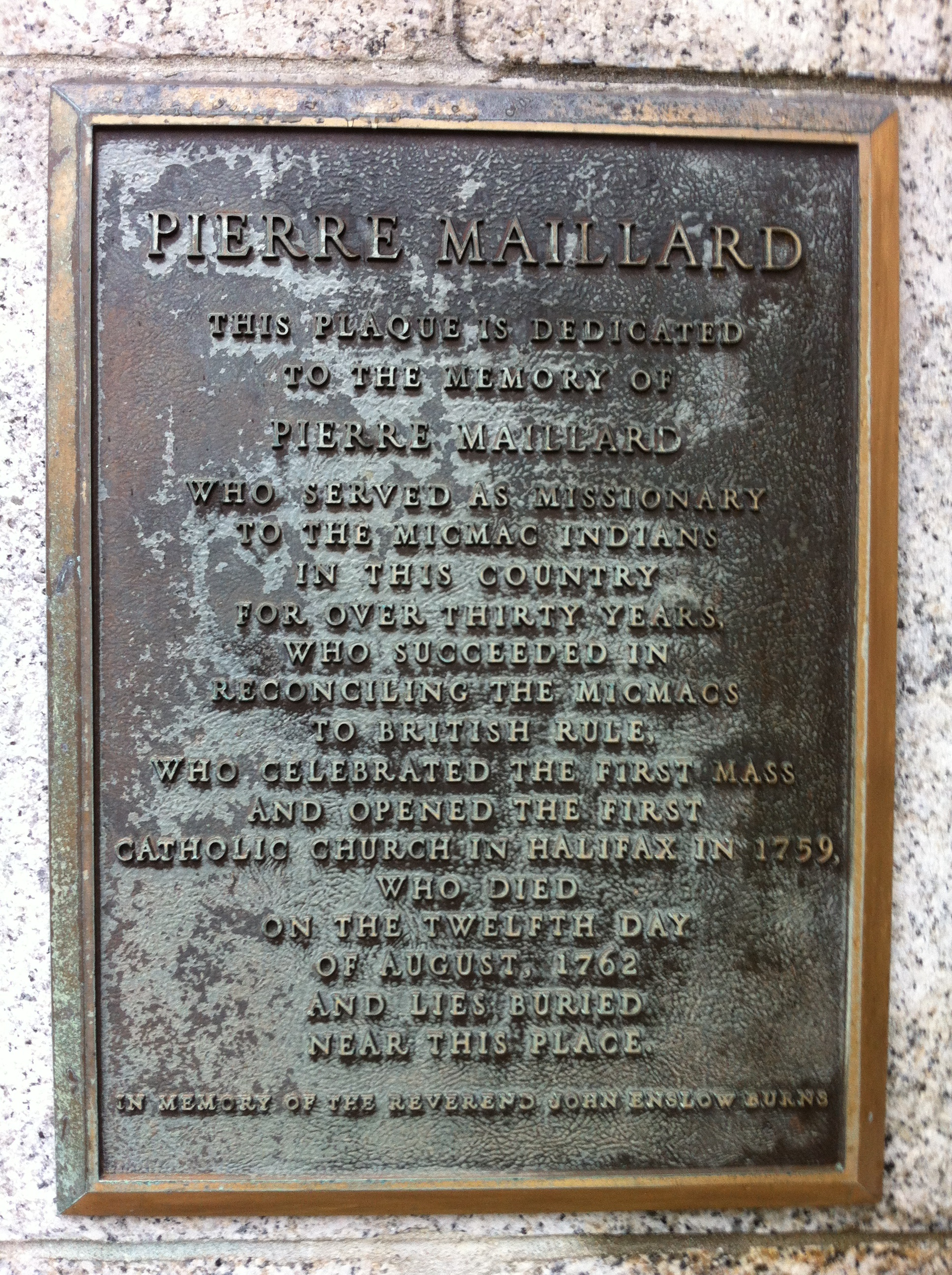 Pierre Malliard Plaque